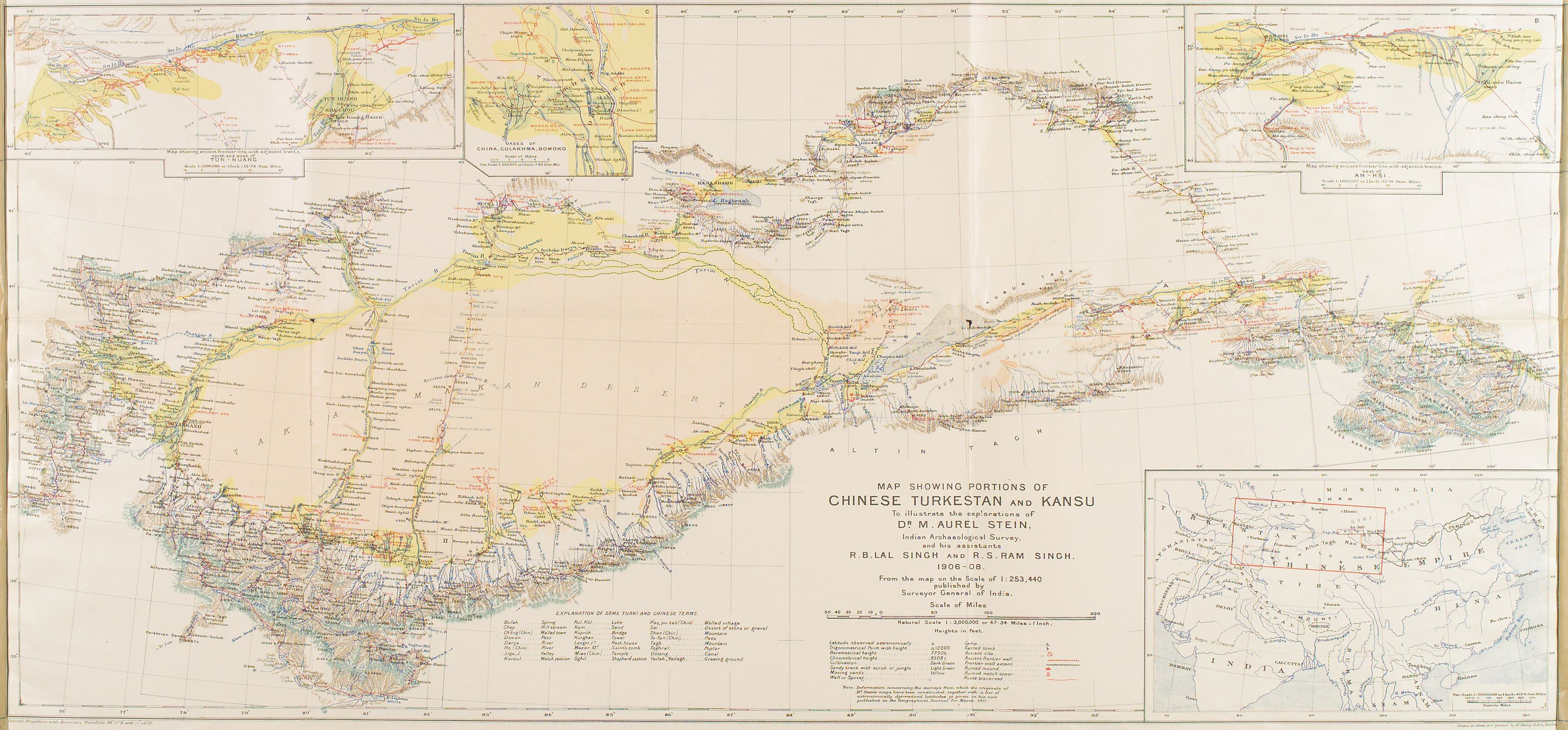 Map of Central Asia (1922) by Aurel Stein, published in "Serindia", vol. 5.